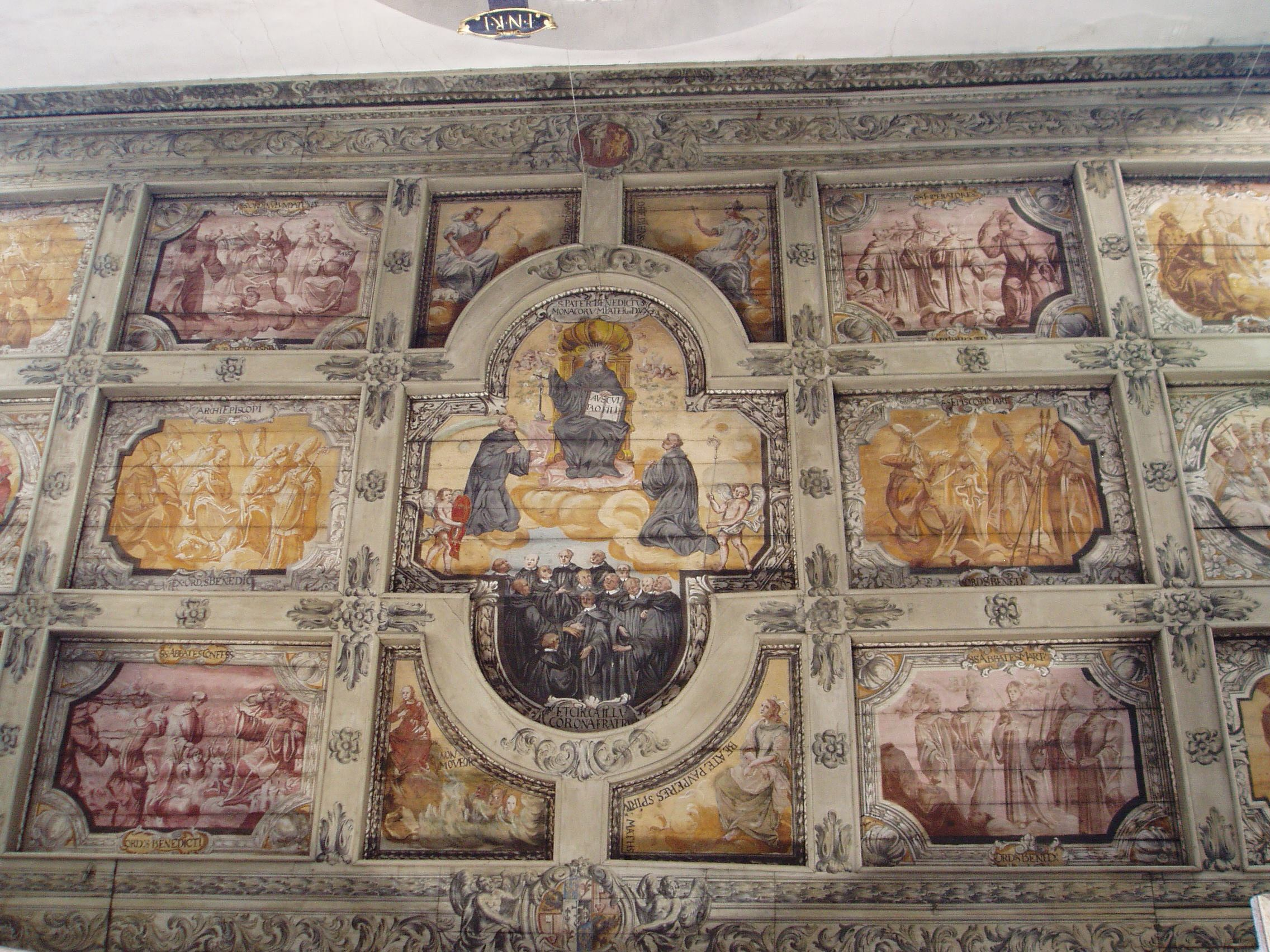 St. Emmeram's Basilica, west transept